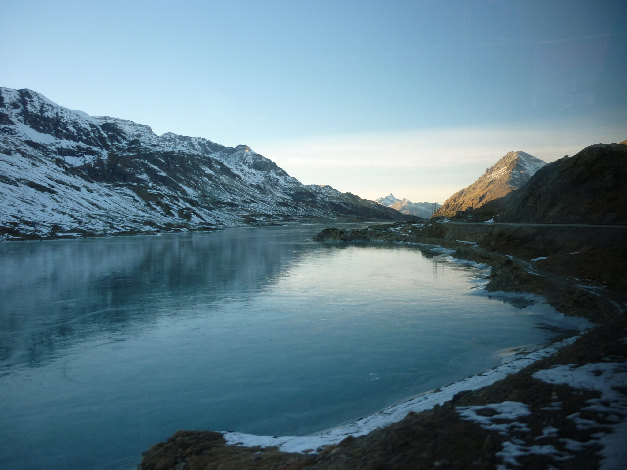 Black ice on Lago Bianco, Berninapass, Switzerland